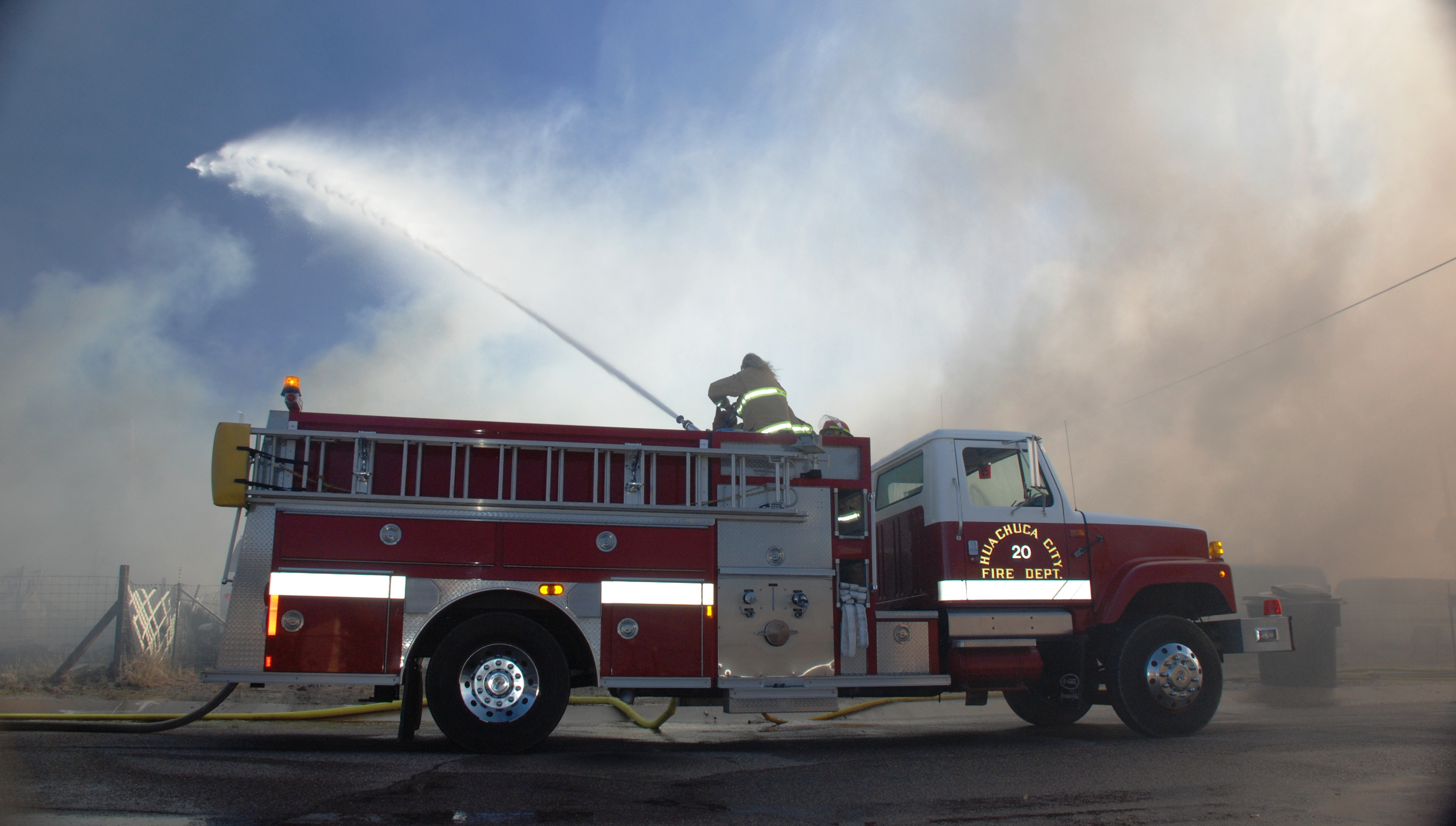 Firefighters fighting a file in Huachuca City, Arizona